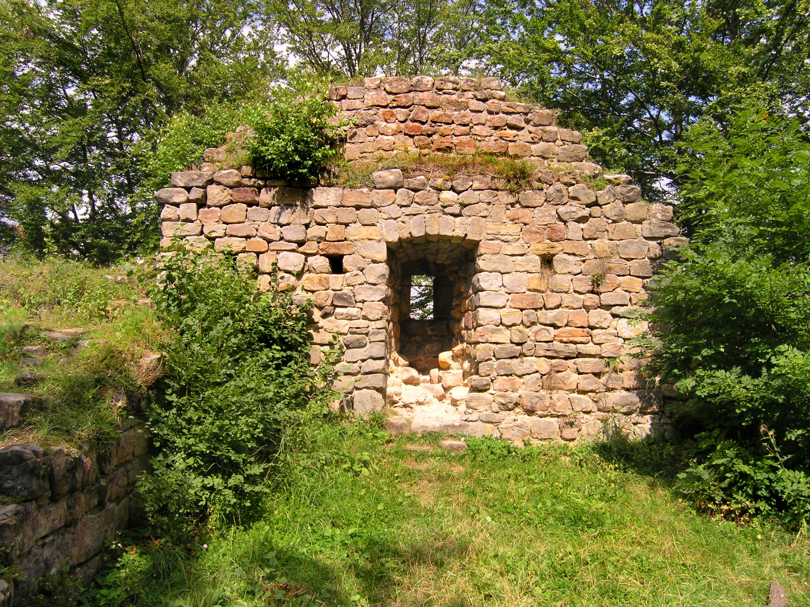 The ruins of Zbirohy castle in Koberovy village, Czech Republic